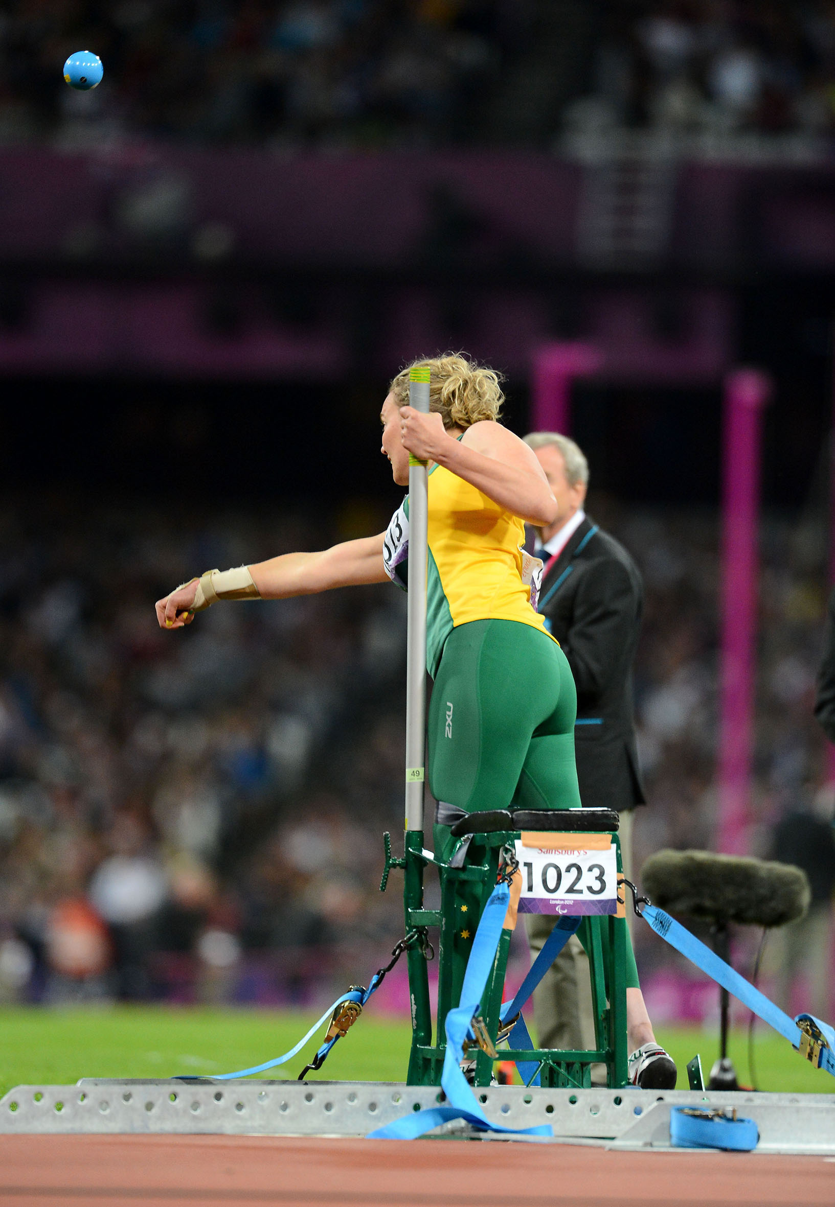 Photograph of Australian Paralympic team member Louise Ellery at the 2012 Summer Paralympic Games in London